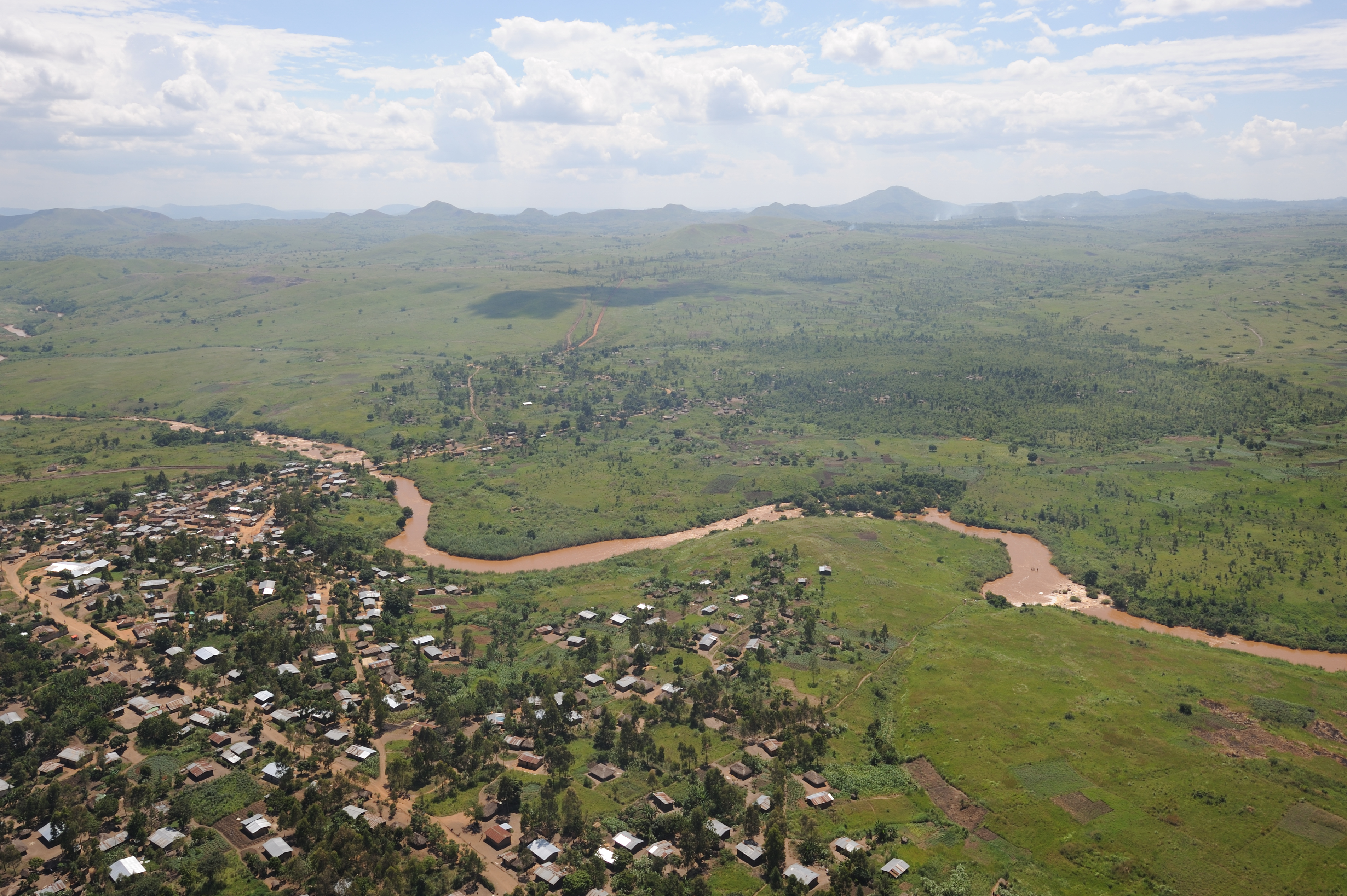 We flew in low over Bunia, the river and the rapids